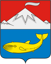 Ust-Kamchatsky rayon (Kamchatka oblast), coat of arms